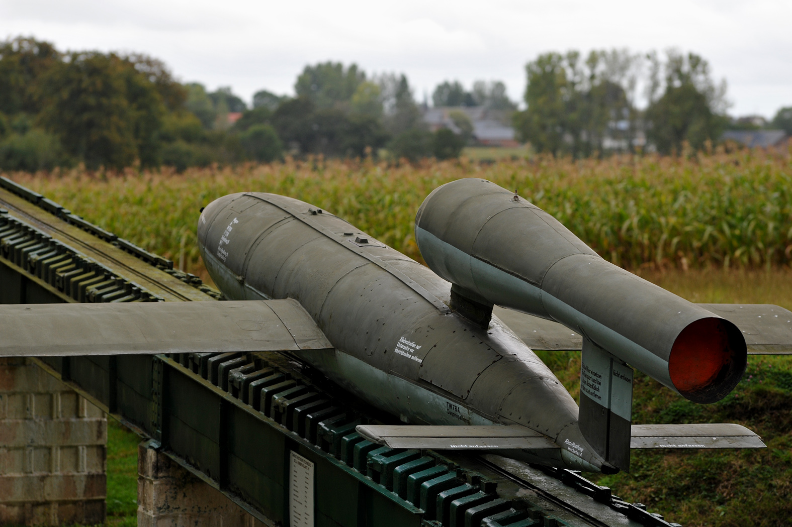 V-1-site no. 685, Val Ygot near Ardouval, V-1 replica on a rebuilt but original ramp torso; Seine-Maritime, France.